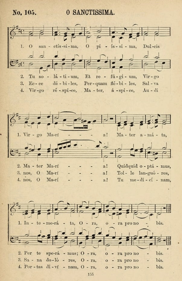 O sanctissima, traditional hymn to Virgin Mary from Italy